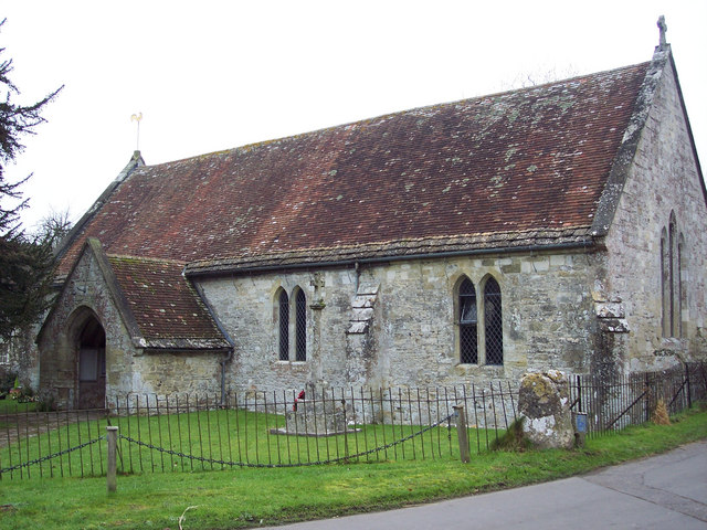 Church of St Edward To give the church its full name it is the Church of St Edward, King of the West Saxons. This church is mainly 13th Century. This is one of the few churches in the area which avoided the attentions of victorian restorers and remains very simple.